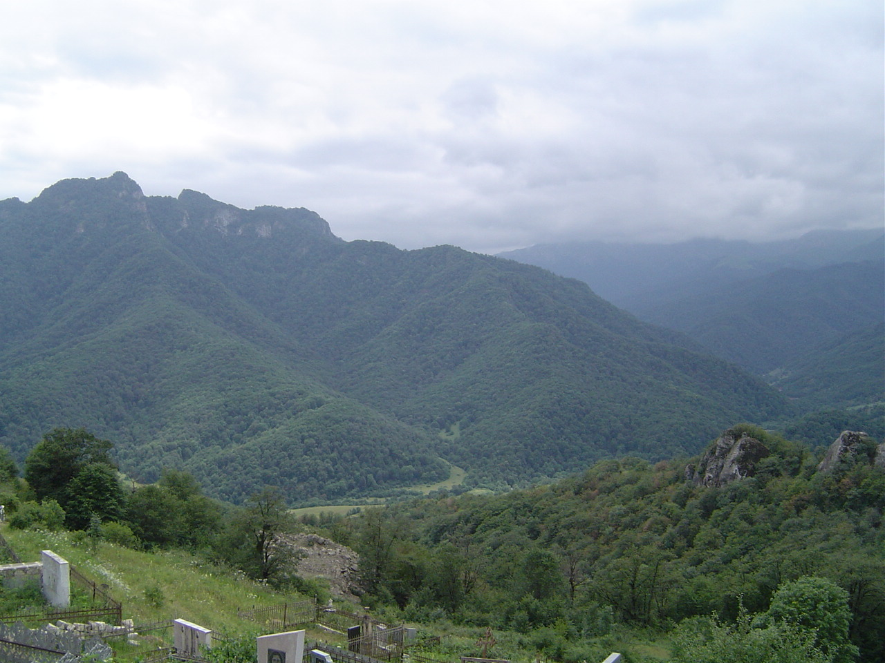 The castle of Xoxanaberd can be seen perched to the left of this photograph, as seen from the monastery at Gandzasar.